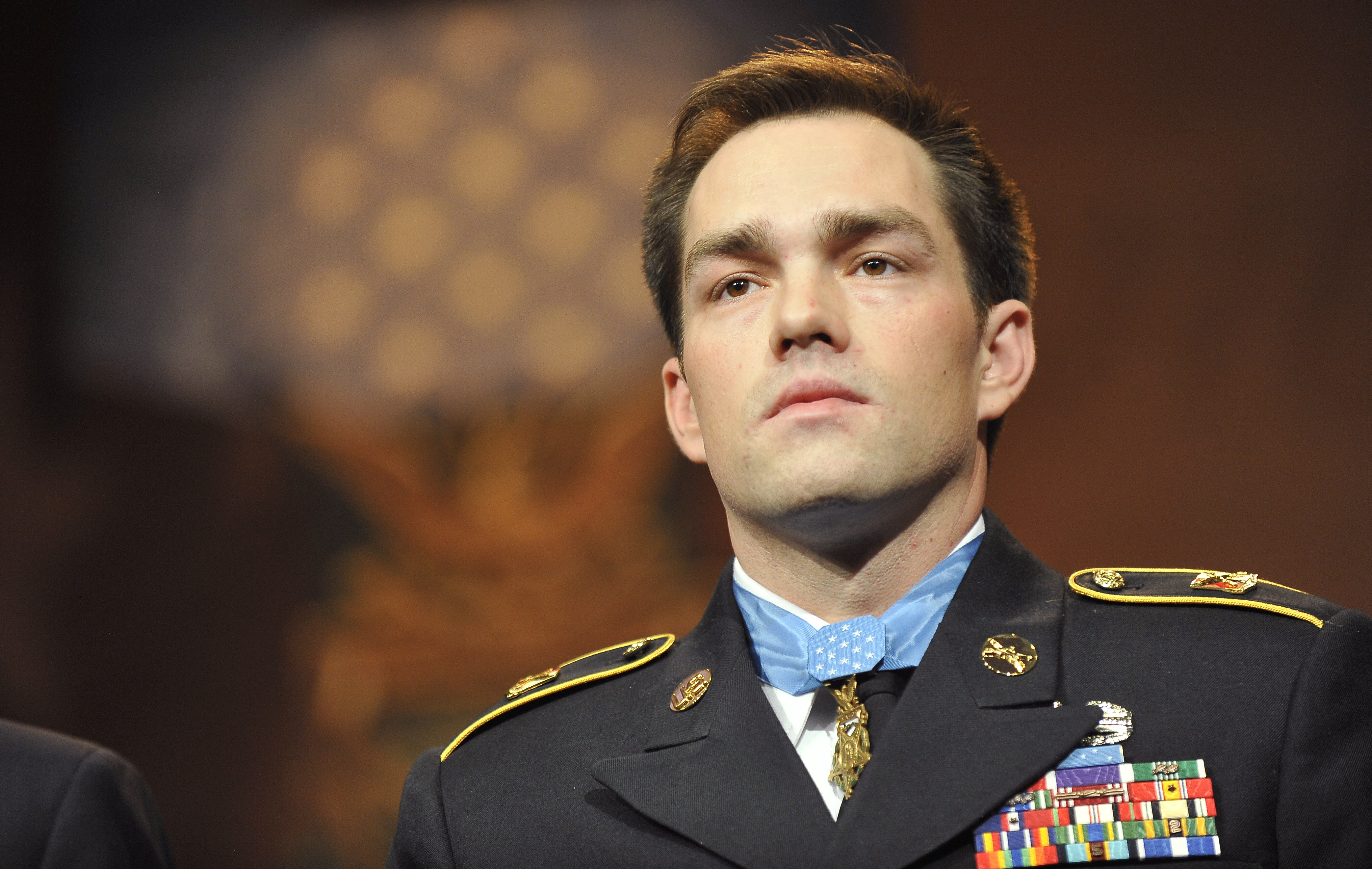 Former U.S. Army Staff Sgt. Clinton L. Romesha stands as he is recognized during a ceremony Feb. 12, 2013, at the Pentagon in Arlington, Va. A day earlier, Romesha received the Medal of Honor during a ceremony at the White House in Washington, D.C., for his actions during the Battle of Kamdesh at Combat Outpost Keating in Nuristan province, Afghanistan, Oct. 3, 2009. Romesha was a section leader with Bravo Troop, 3rd Squadron, 61st Cavalry Regiment, 4th Brigade Combat Team, 4th Infantry Division at the time of the battle.